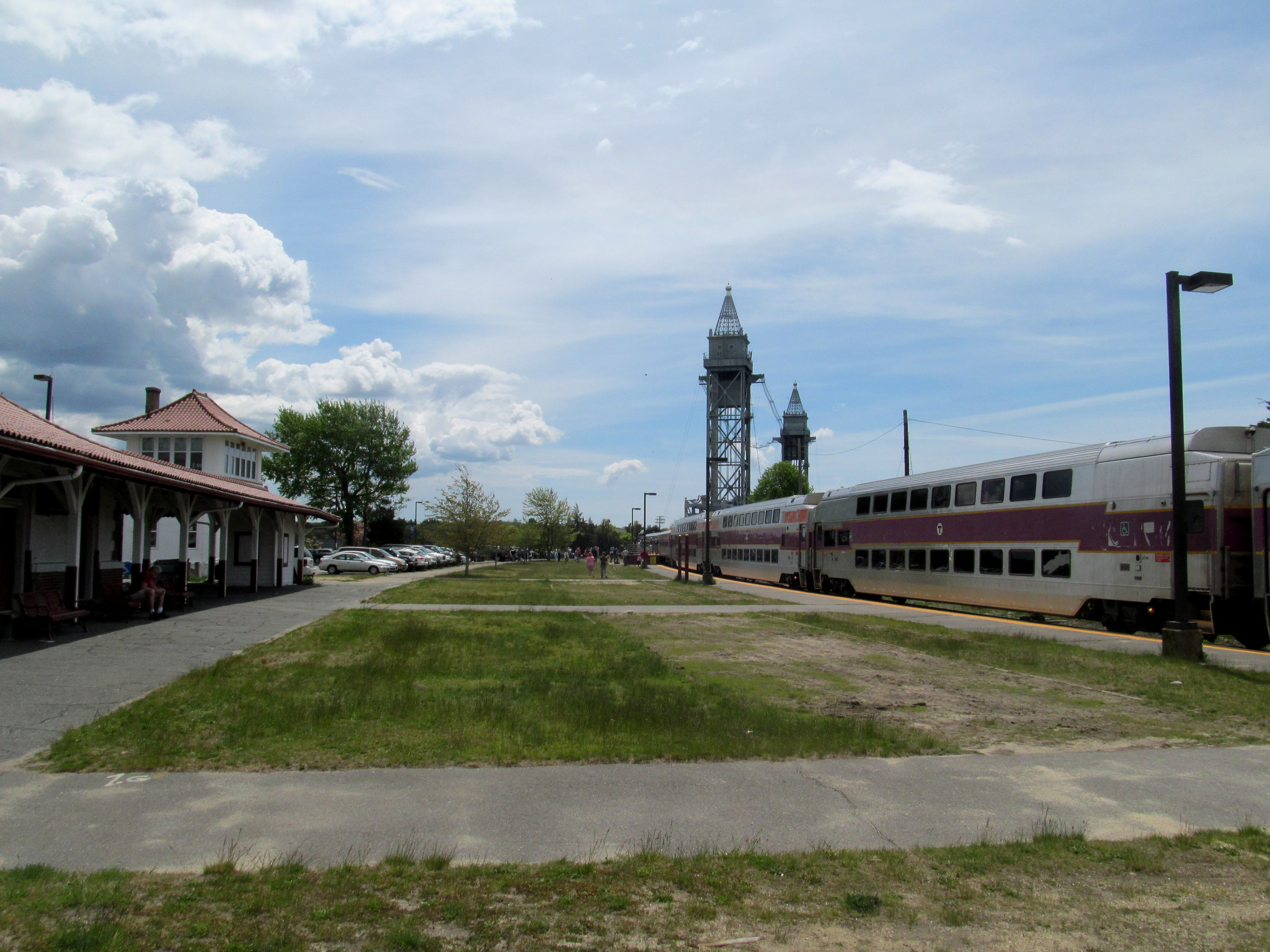 The outbound trial run of the CapeFLYER service stopped at Buzzards Bay